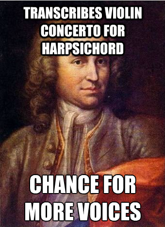 Johann Sebastian Bach à la manière d'un "meme".